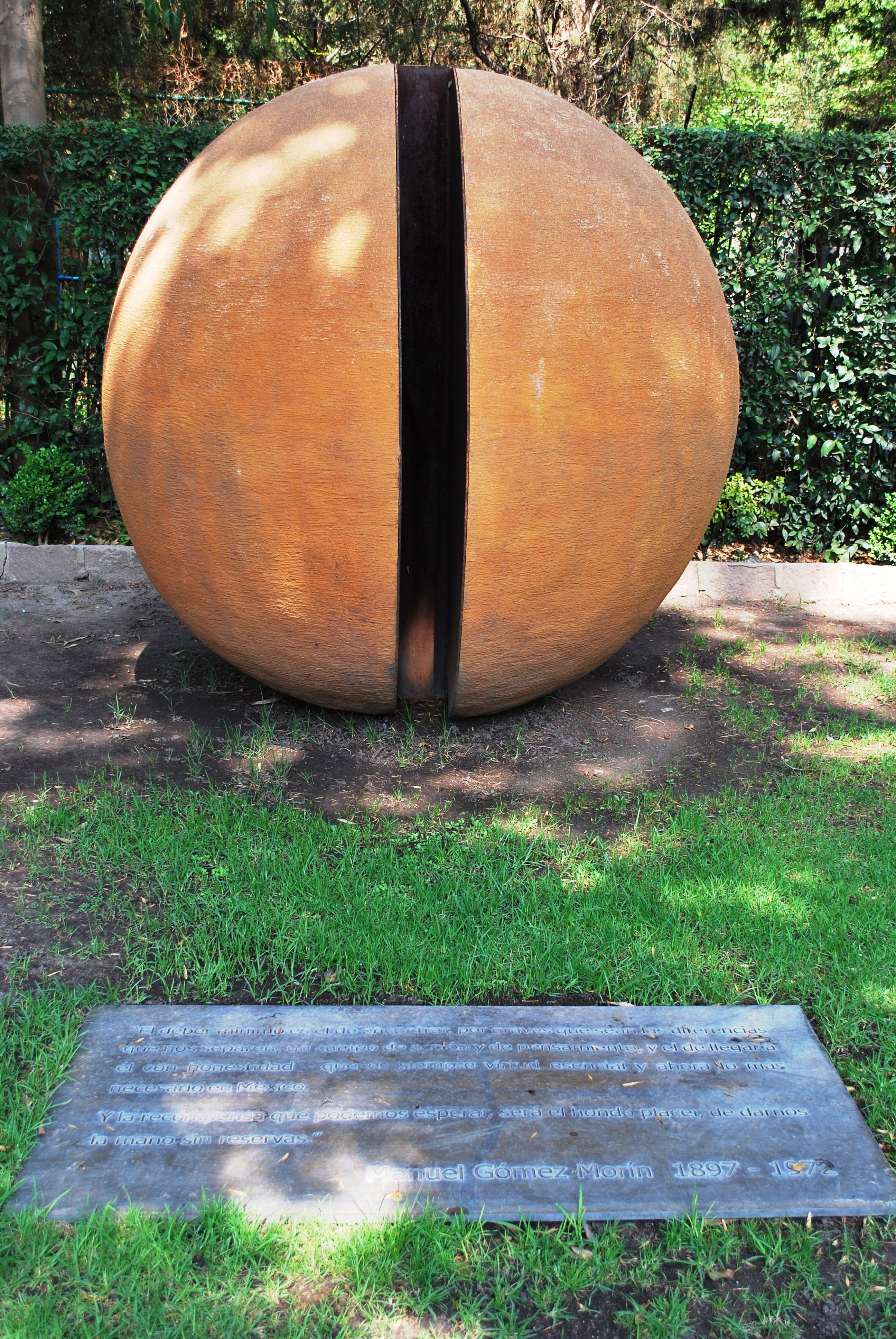 Tomb of Manuel Gomez Morin in the Panteon Civil de Dolores cemetery in Mexico City